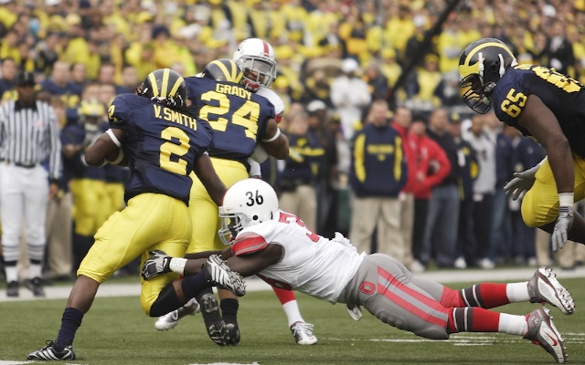 Vincent Smith runs behind Kevin Grady block while Brian Rolle attempts a tackle